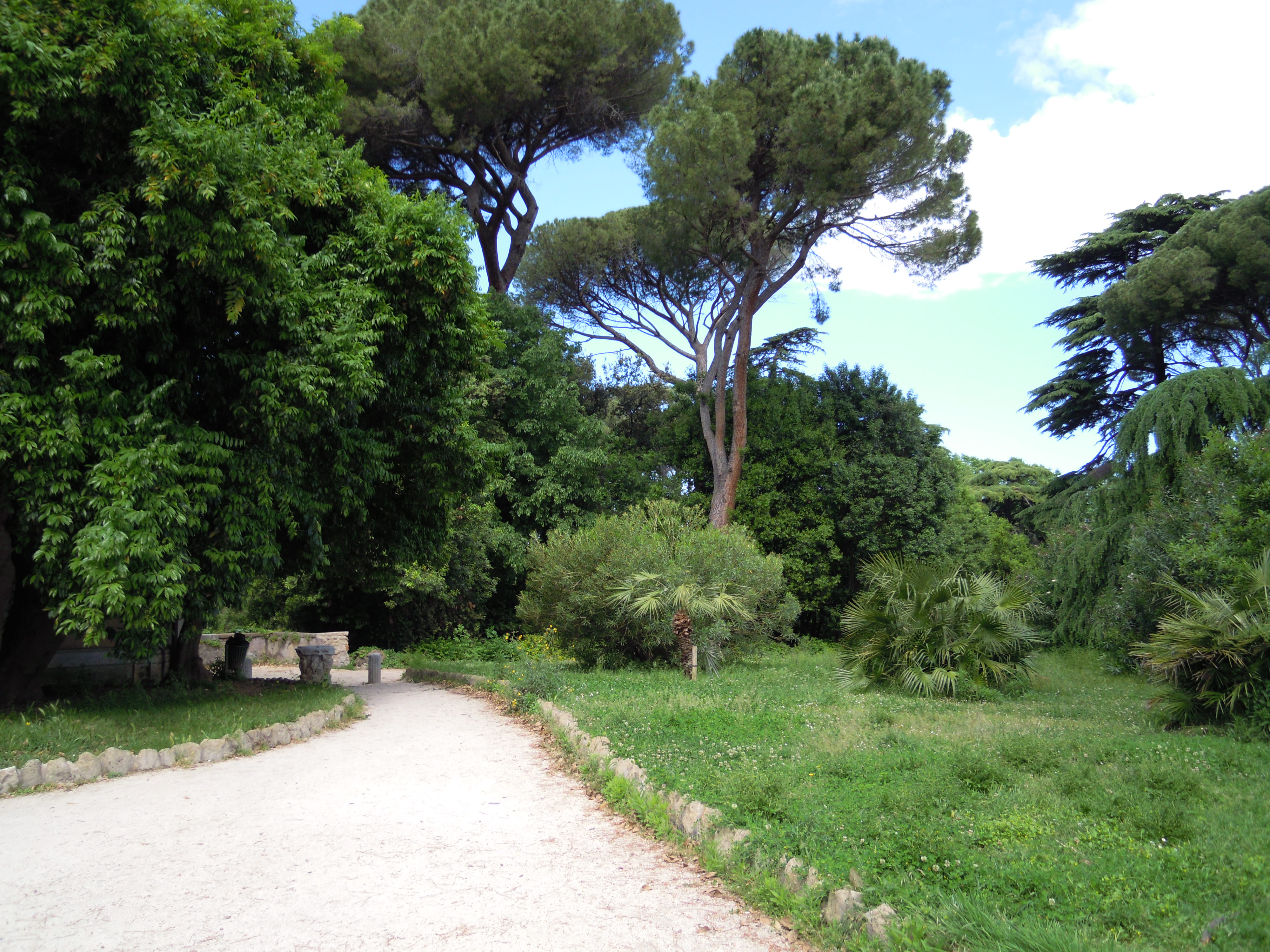 A path through Villa Celimontana (Rome)